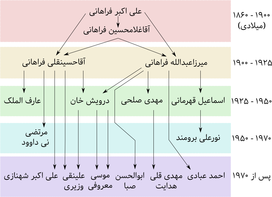 To modify, edit the SVG version: File:Pedigree-of-Persian-radif-masters.svg (e.g. using Inkscape) and export it to PNG.